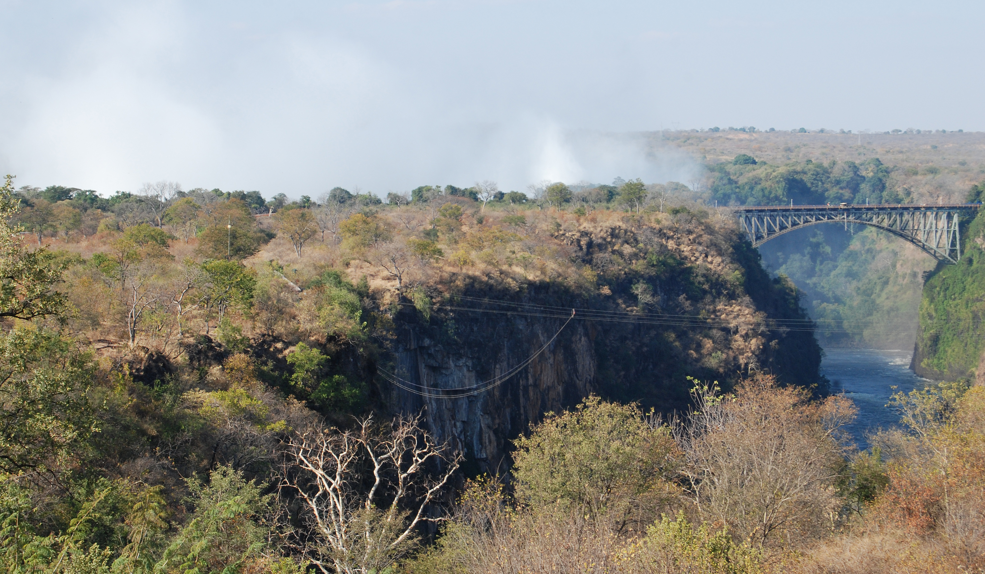 On the grounds of the Victoria Falls Hotel, an historic hotel at Victoria Falls, Zimbabwe. The "smoke" in the background is the mist from the Falls / Mosi-oa-Tunya ("The Cloud that Thunders")